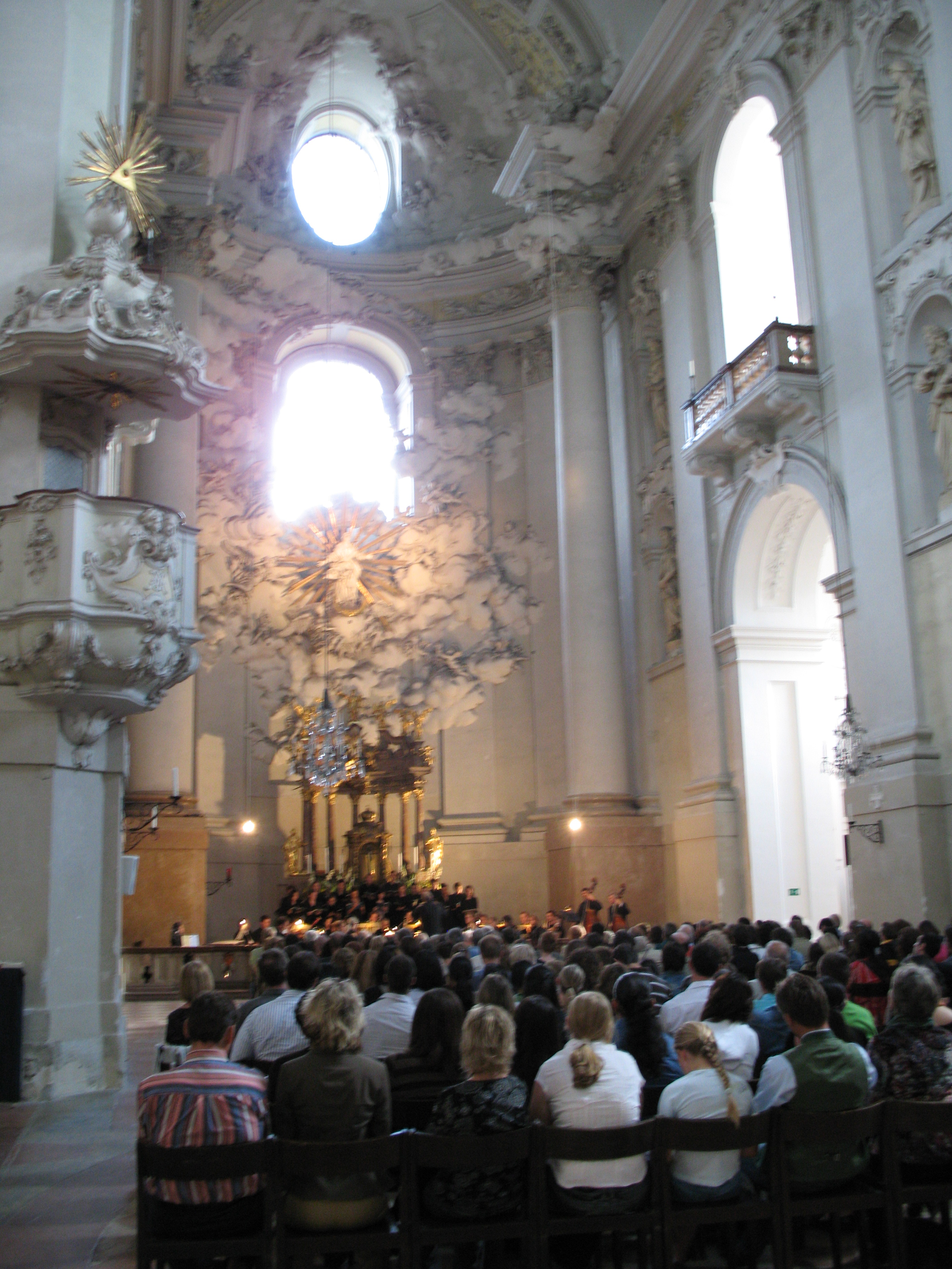 Austria, Salzburg, Kollegienkirche